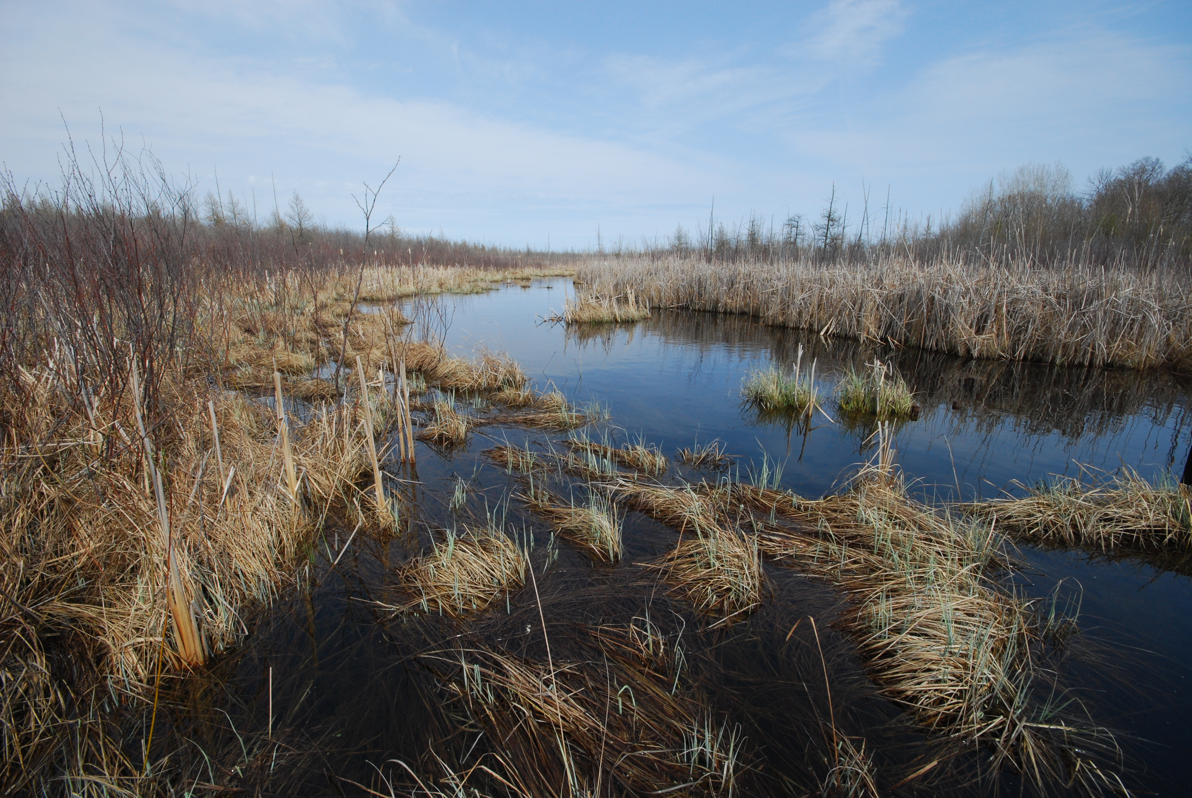 Cedarburg Bog Wisconsin State Natural Area #2 Ozaukee County